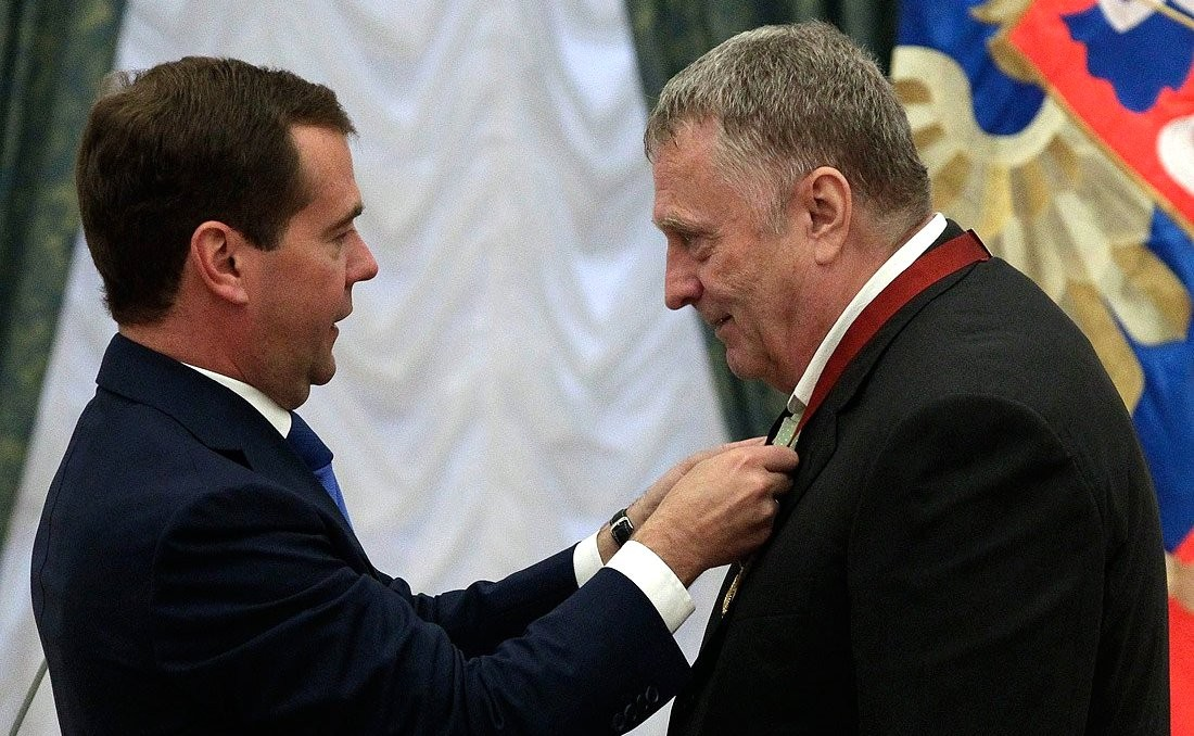 Dmitry Medvedev awards Vladimir Zhirinovsky a state order